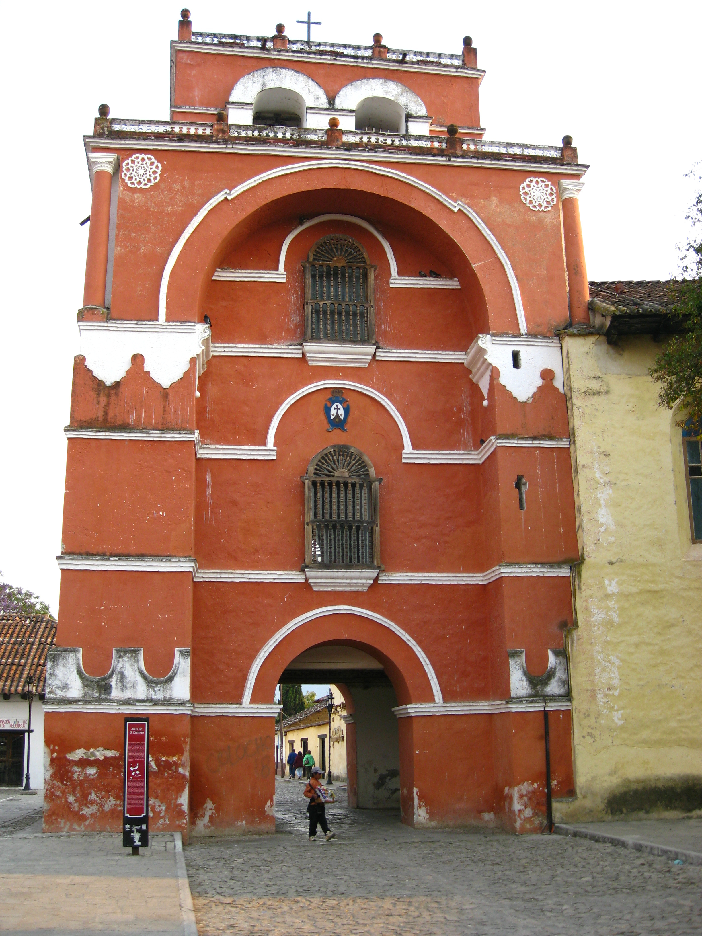 El Arco del Carmen in San Cristóbal del las Casas.